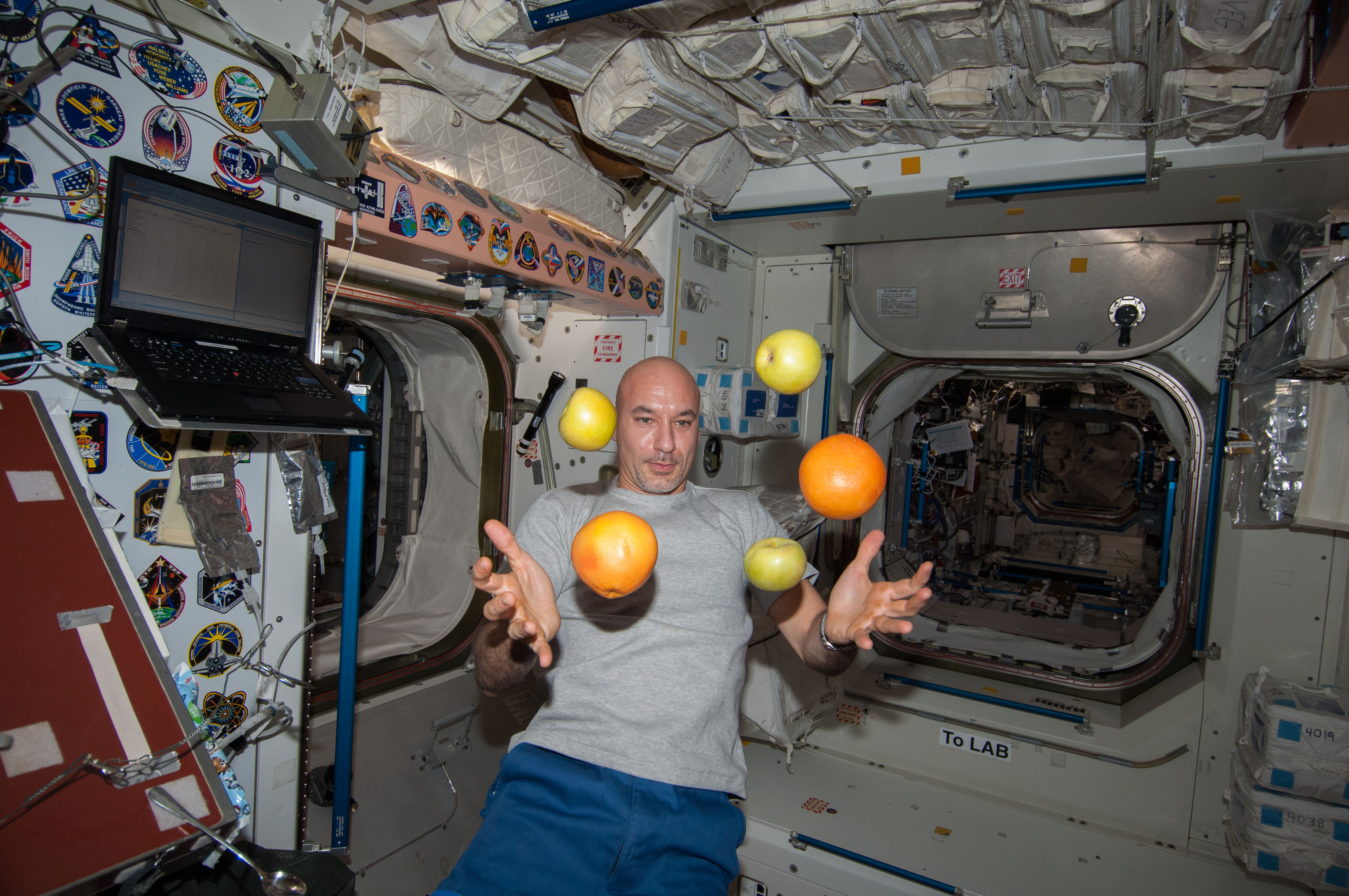 European Space Agency astronaut Luca Parmitano, Expedition 36 flight engineer, is pictured near fresh fruit floating freely in the Unity node of the International Space Station.